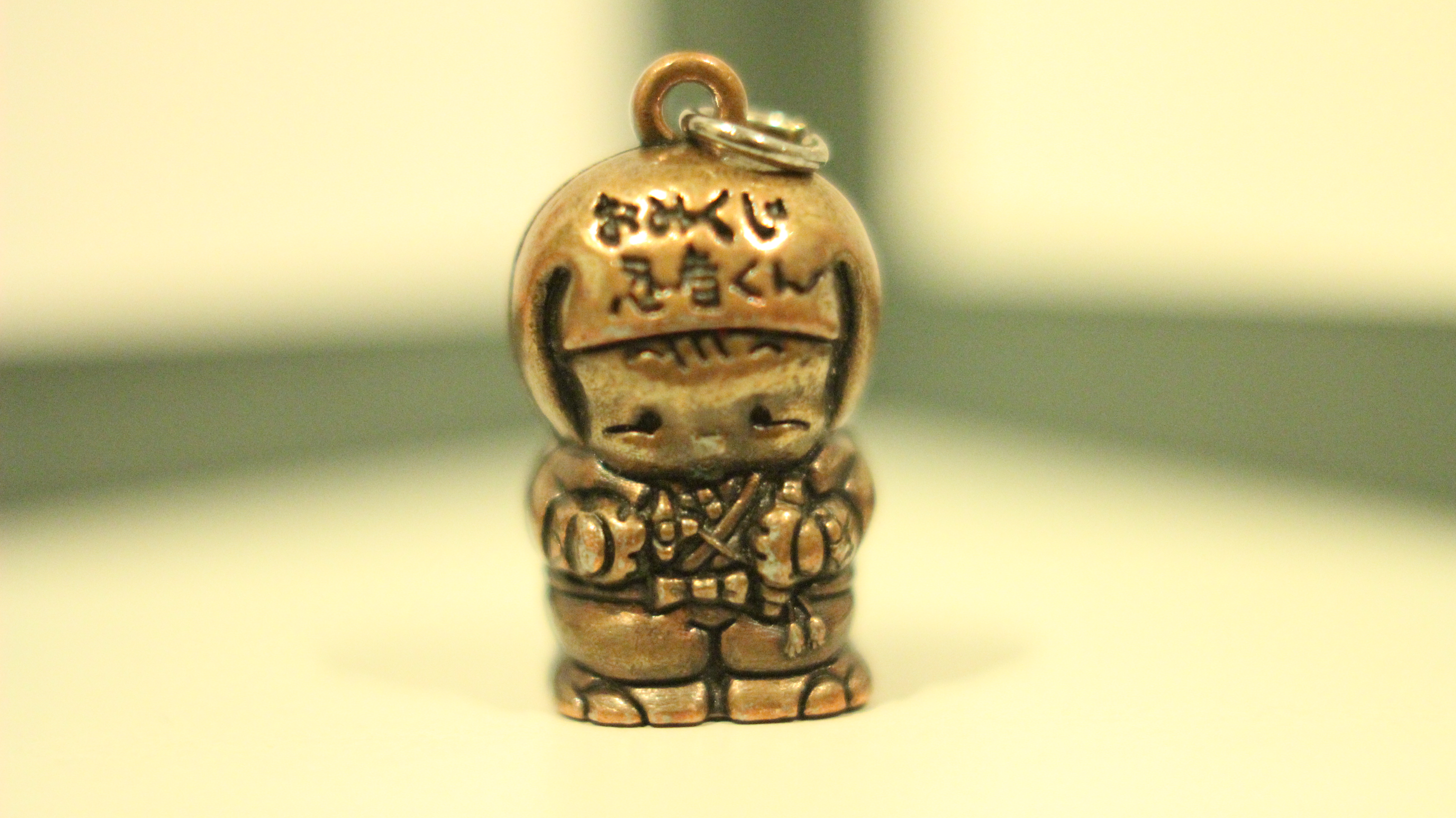 Pocket Omikuji (Macro Photography)